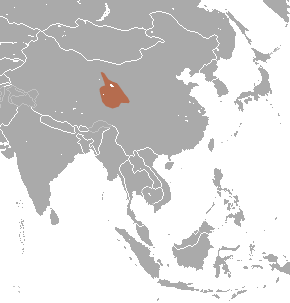 Thomas's Pika (Ochotona thomasi) range